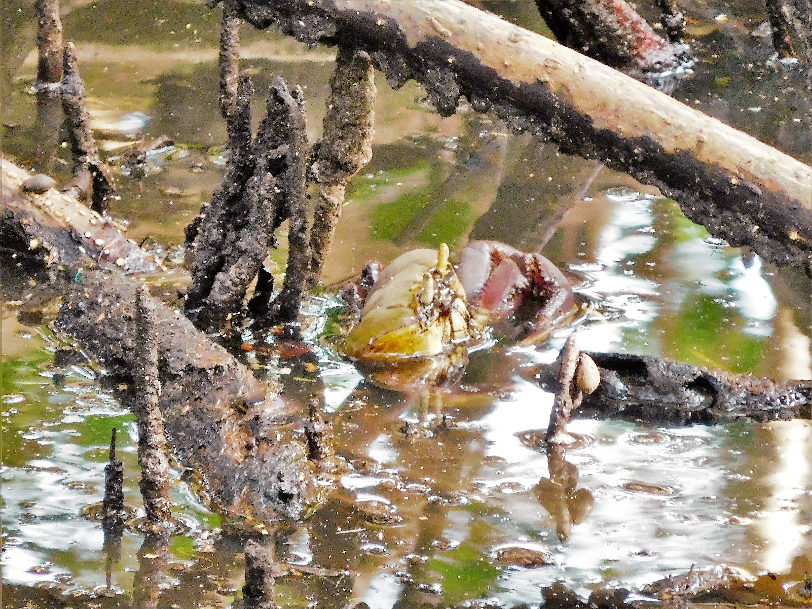 Ucides cordatus